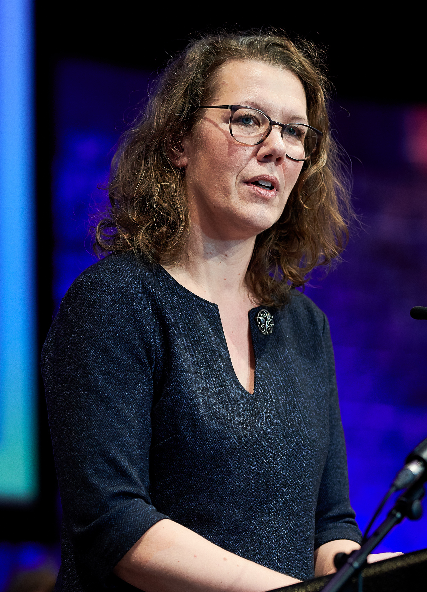 Iris Rauskala, the Austrian Federal Minister of Education, Science, and Research making a speech at the Inauguration of the Central European University Vienna Campus on November 15, 2019 in Expedithalle, Vienna.